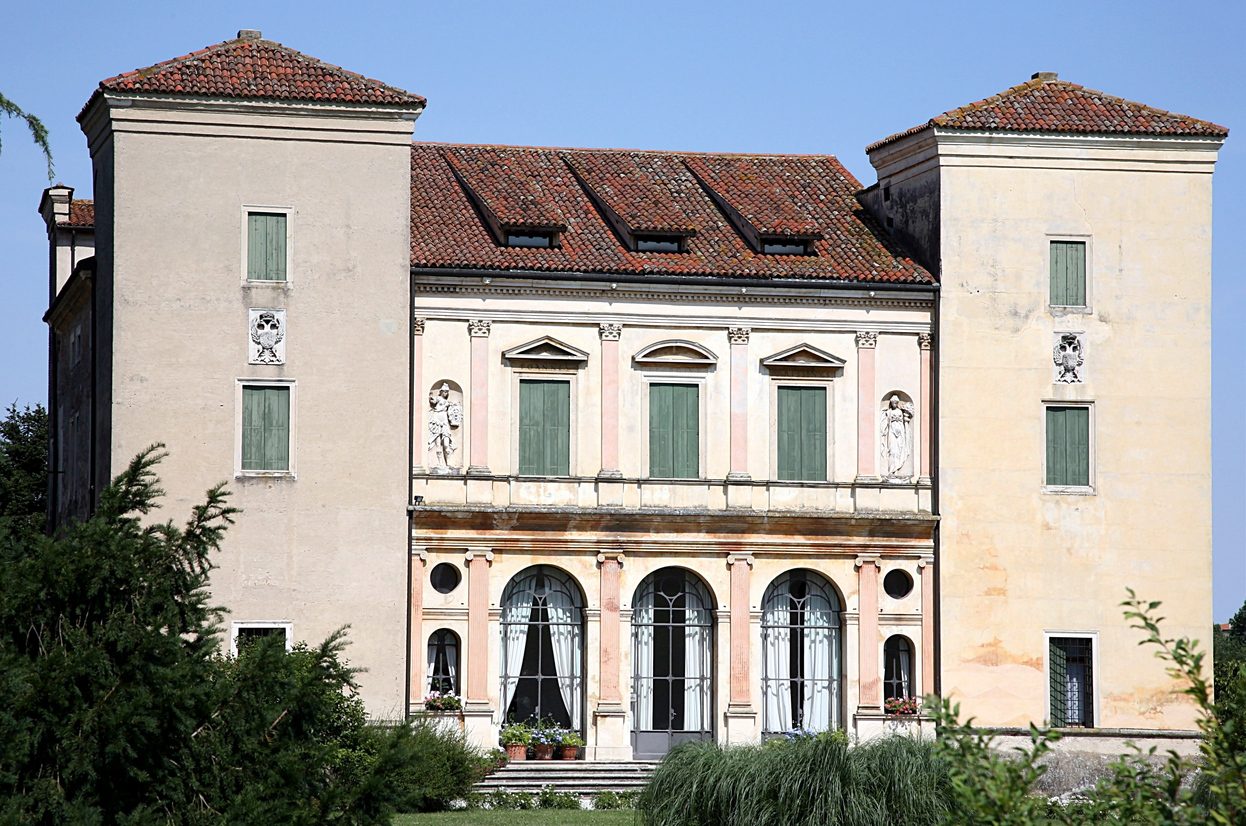 A villa just outside Vicenza. Tradition has it that Trissino here met the young man he would later give the name Andrea Palladio